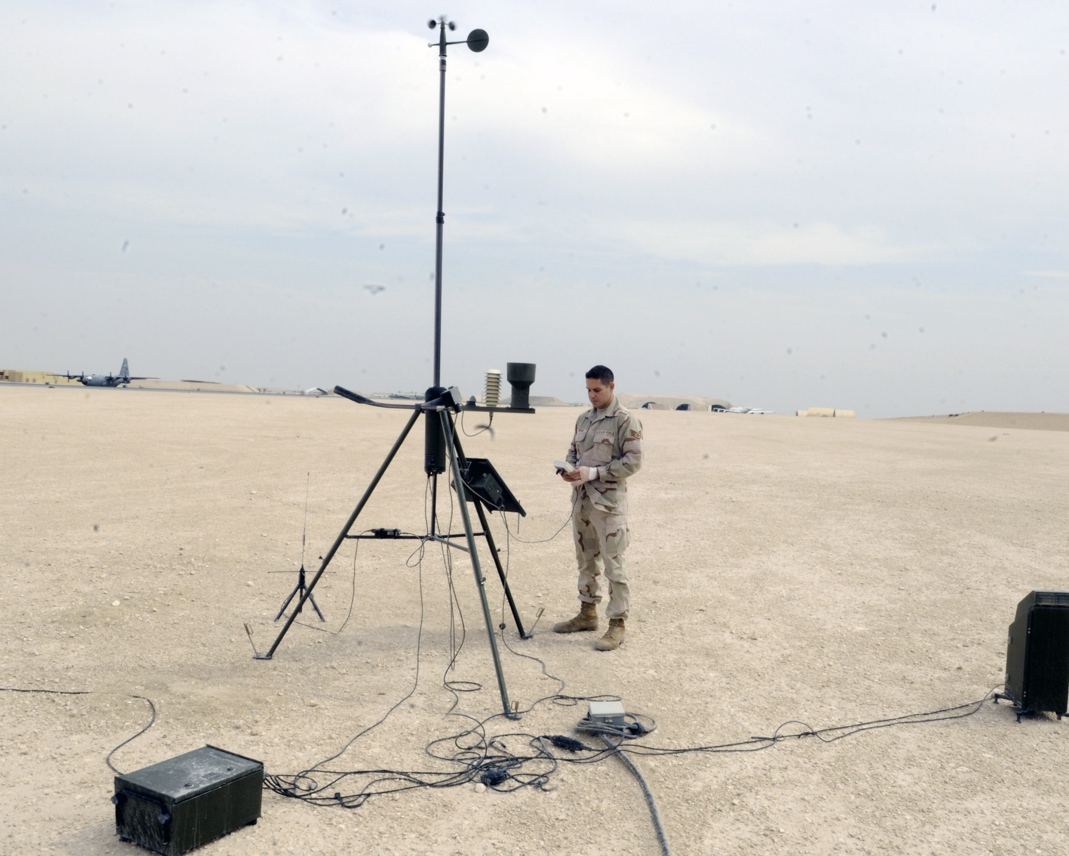 Staff Sgt. Kevin Fedon, a weather forecaster assigned to the 379th Expeditionary Operations Support Squadron at an air base in Southwest Asia, checks weather readouts, including temperature, wind speed, wind direction and precipitation, at a remote weather sensor. The weather readings are put into a weather model to help predict weather patterns and are used for daily reports to aircrews preparing for missions. Sergeant Fedon is a native of Lincoln, Neb., and is an Air National Guardsman deployed from Offutt Air Force Base, Neb.